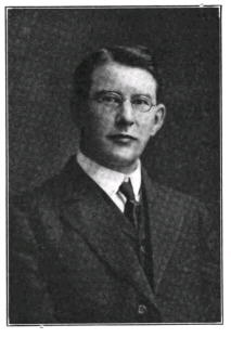 Photograph of Dr. Herbert W. Harmon of Grove City College, from "A Practical Radiophone for the Amateur" by Herbert W. Harmon, Radio Amateur News, May, 1920, page 616.